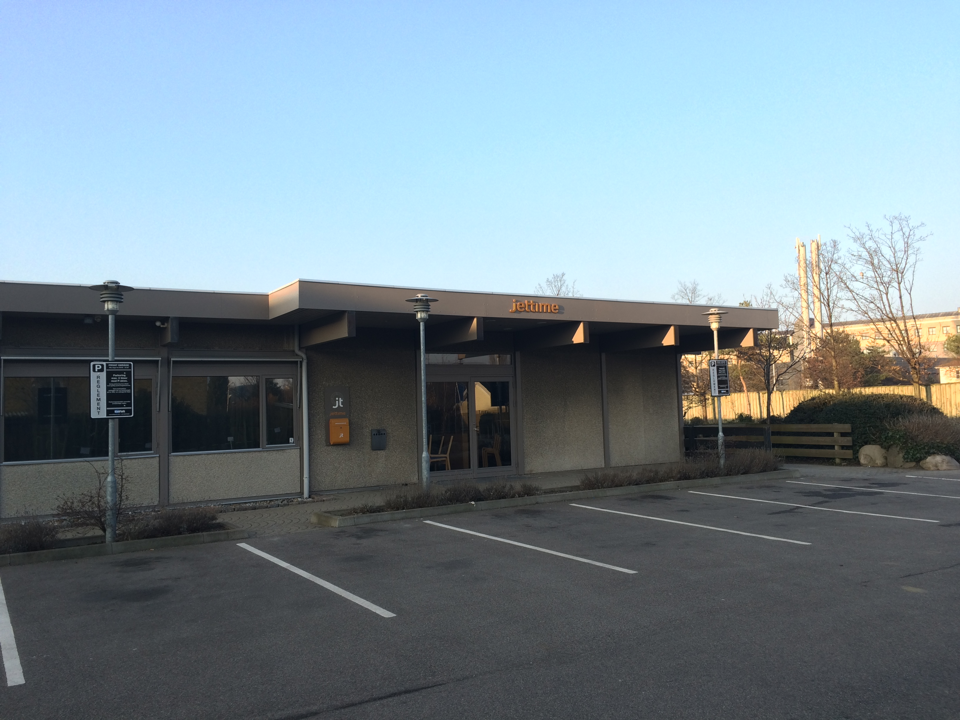 Jet Time - Head office Skøjtevej 27-31 - Kastrup - Denmark